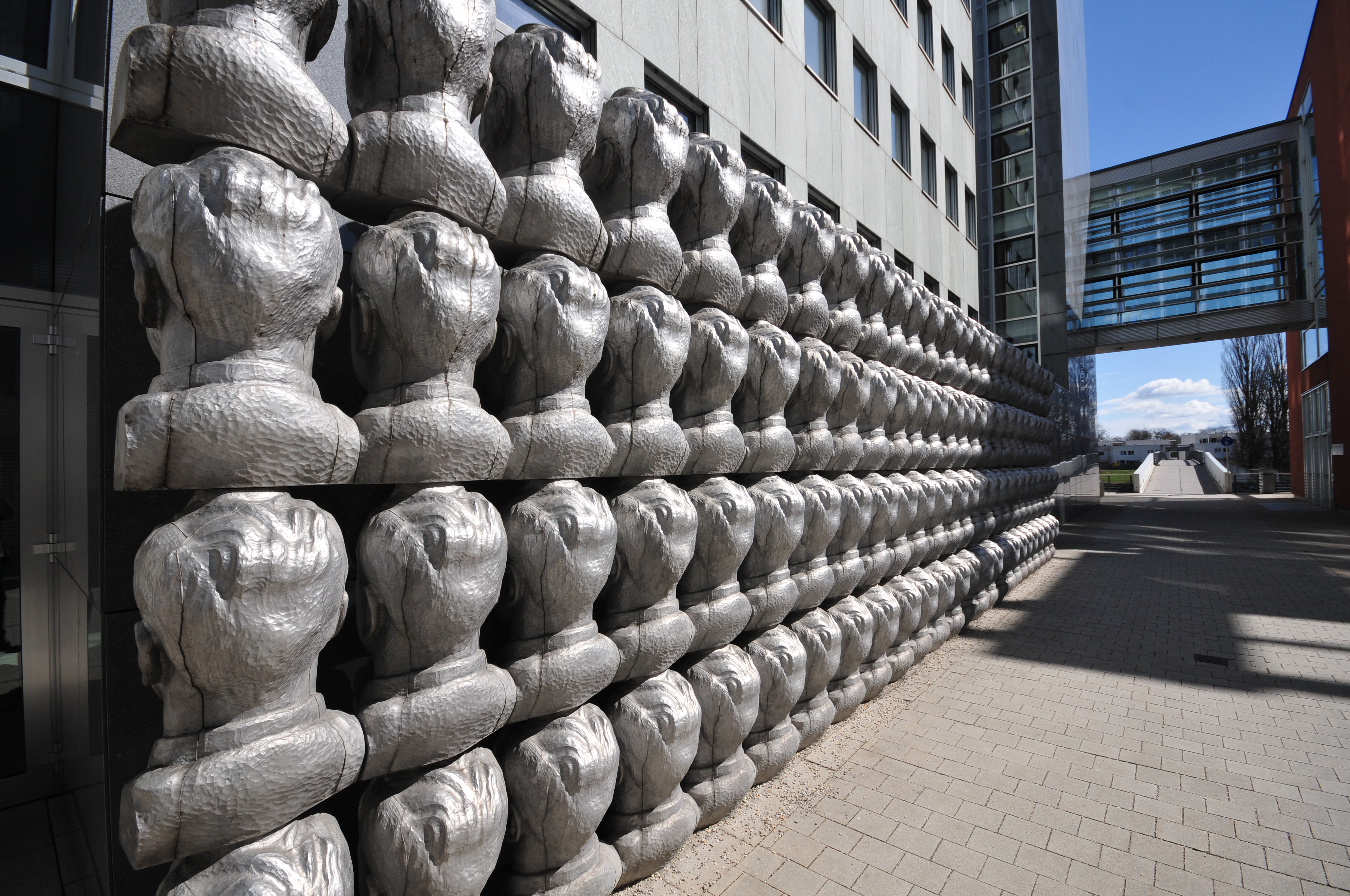 St. Pölten, Austria, Landhausviertel: Hohlkopfwand by Hans Kupelwieser Fotowanderung St. Pölten 13. April 2013 in St. Pölten, Niederösterreich 50mm • Allgemeines • Bahnhof • Domplatz • Fahrräder • Landhausviertel • Rathausplatz